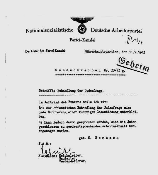 The head of the NSDAP Party Chancellery Martin Borman orders the avoidance of the public discussion of a future complete solution of the Jewish question, but allows public talks about that the Jews are unifiedly enlisted for an appropriate commitment to work.